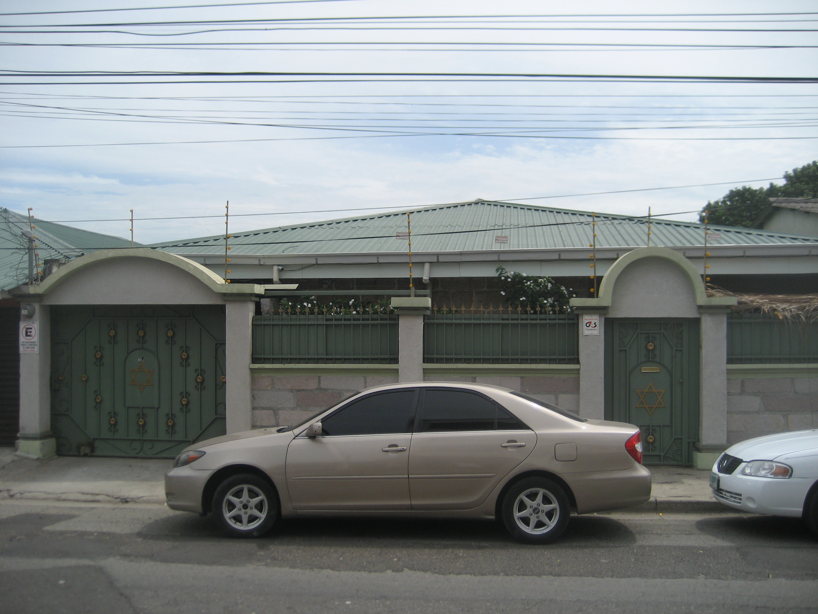 A Jewish house with a succah, mezuza and shield of David in San Pedro Sula, Honduras.